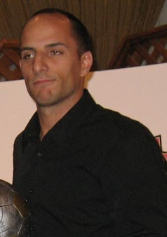 Fil Rocca in 2006 with Windsor Border Stars.